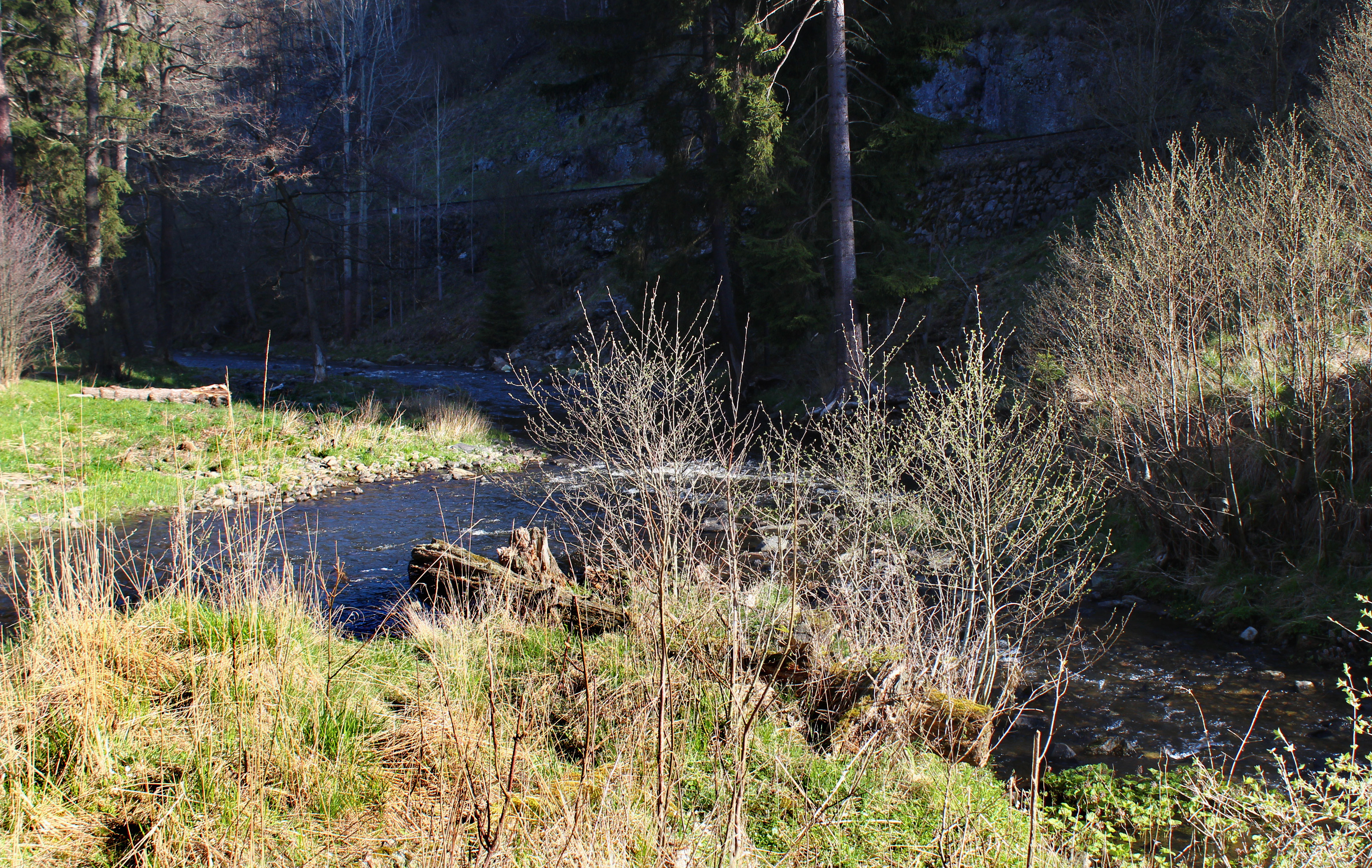 Confluence of Teplá River with Otročínský Creek by Bečova nad Teplou, Czech Republic